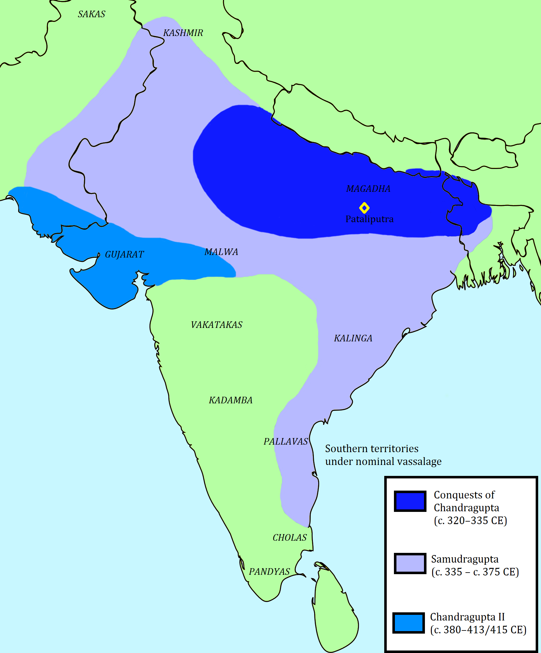 Map of the Gupta empire showing conquests of three major rulers